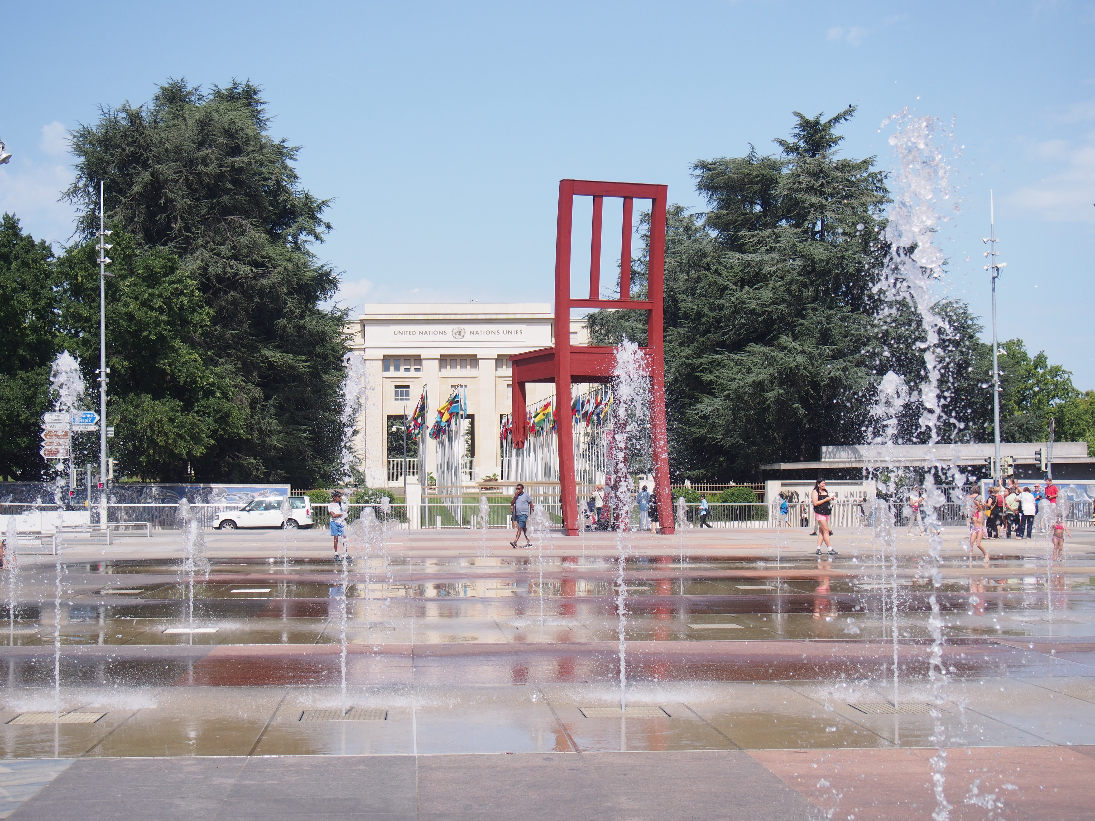 palais des Nations